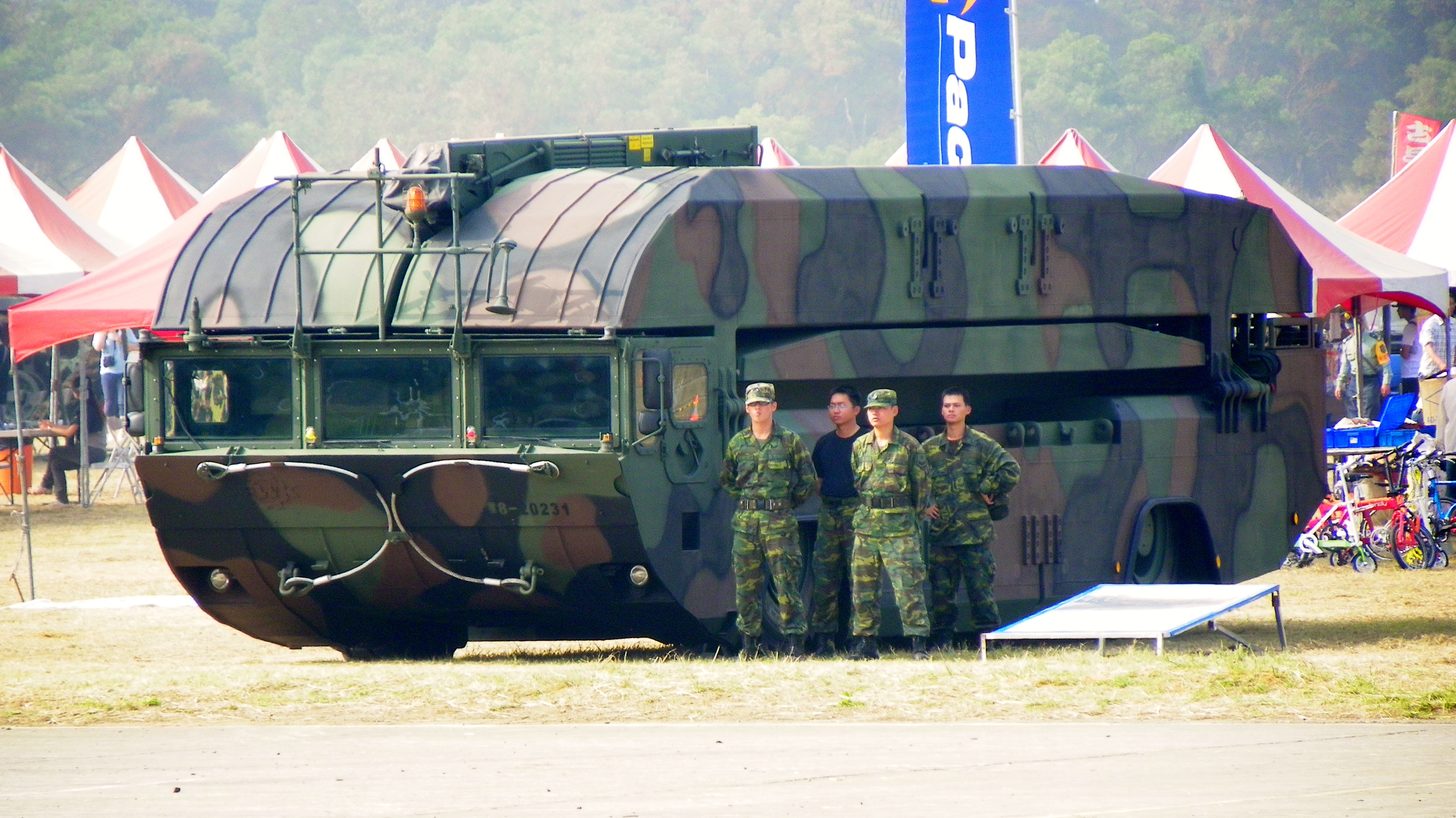 M3 of the Republic of China Armed Forces